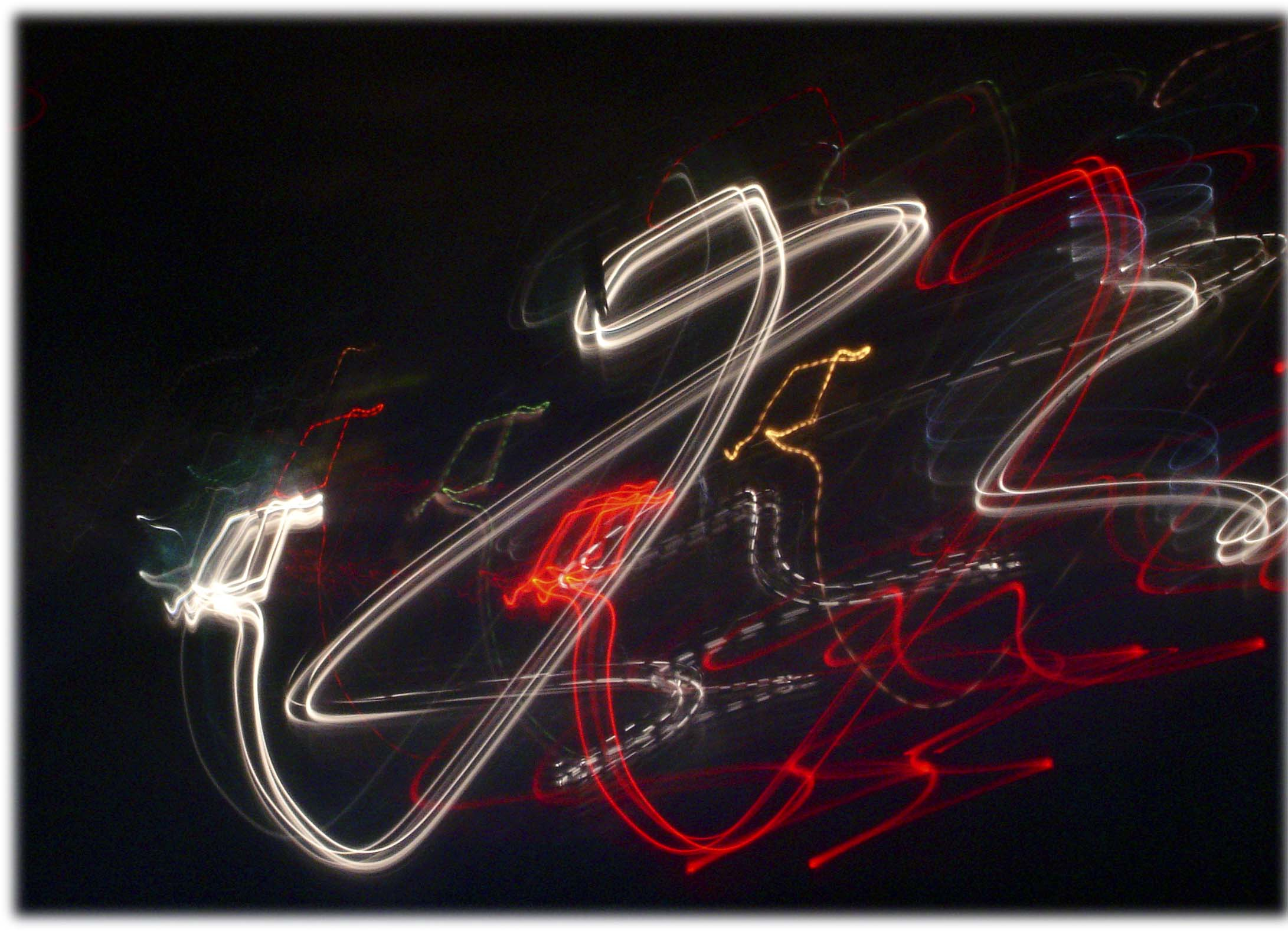 Another example of Light Painting using head and tail lights from cars in traffic.